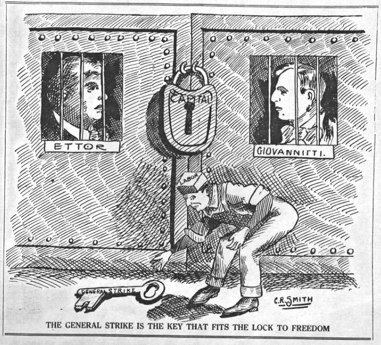 "The general strike is the key that fits the lock to freedom." This IWW illustration from 1912 urges a general strike by workers to show support for Ettor and Giovannitti, the leaders of the Lawrence textile strike.